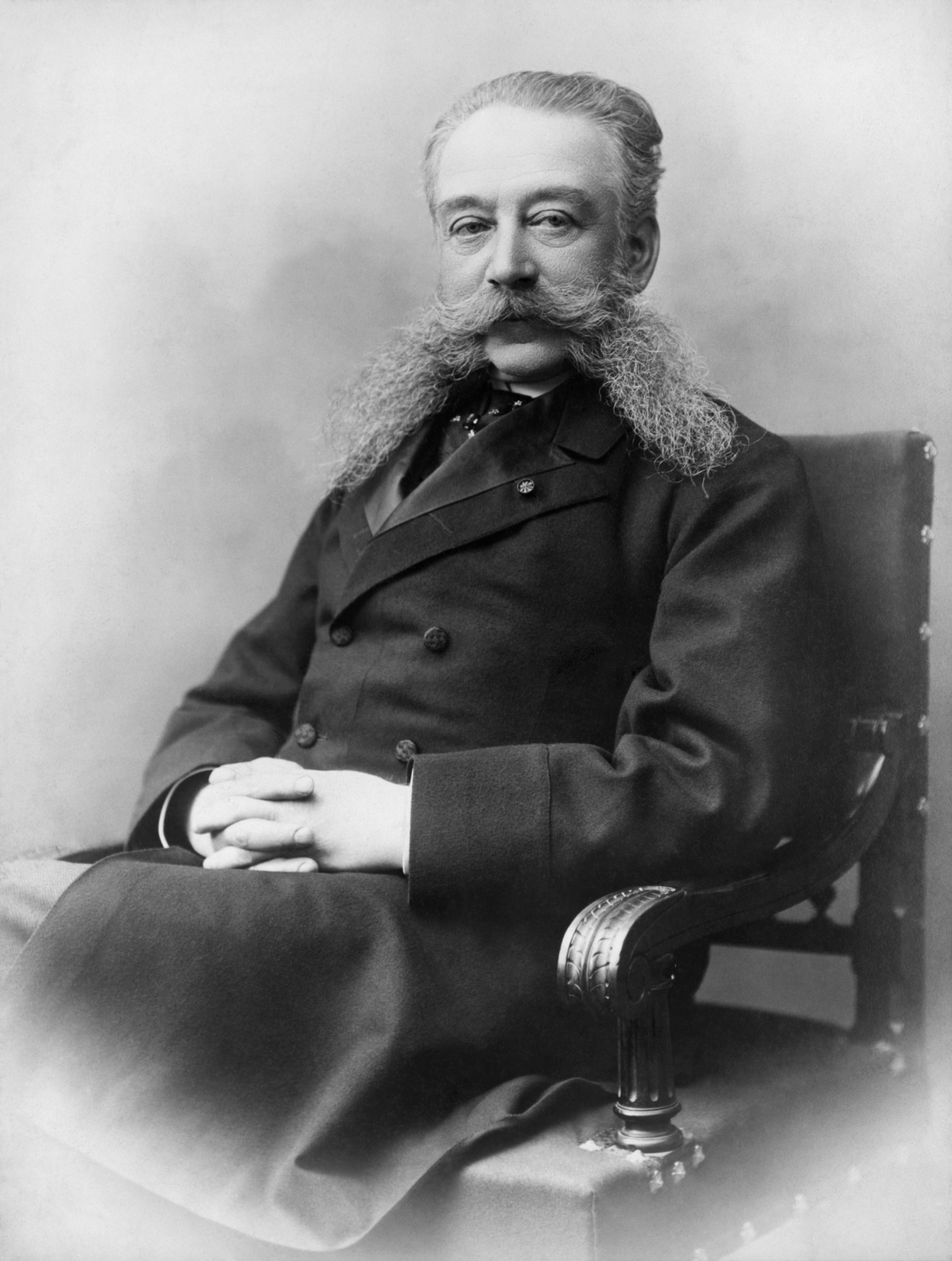 Ivan Logginovitch Goremykin, Russian Prime Minister during World War I.